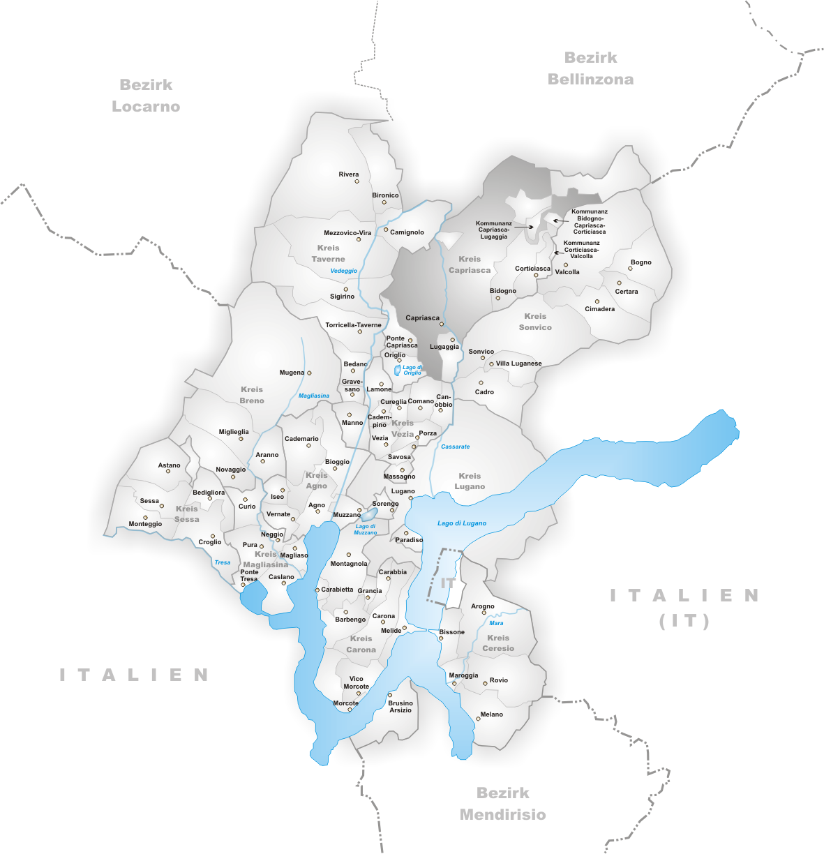 Municipality Capriasca